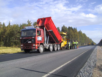 Roadworks somewhere in Finland.